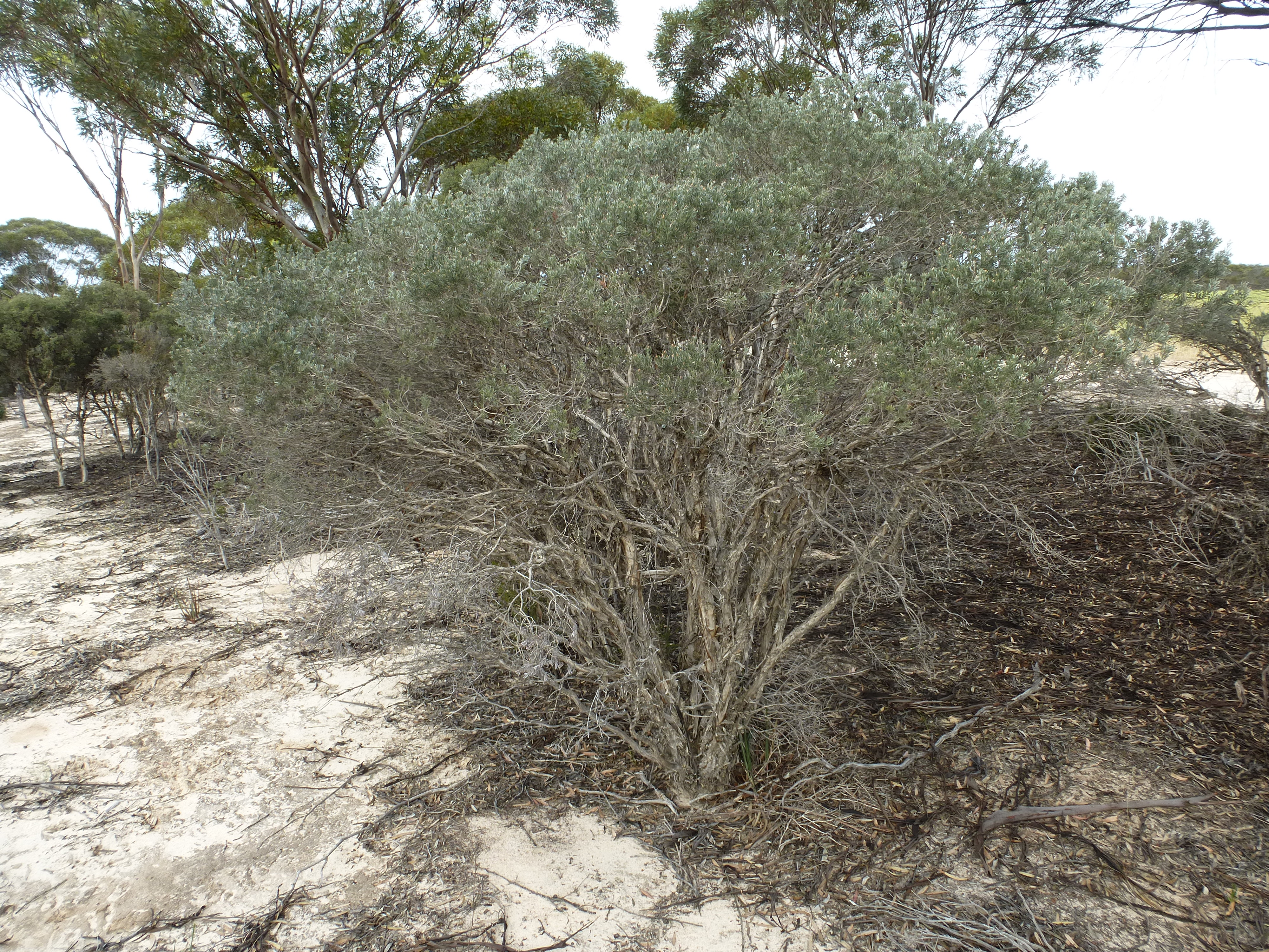 Melaleuca sapientes growing at the type location in the Holt Nature Reserve near Salmon Gums